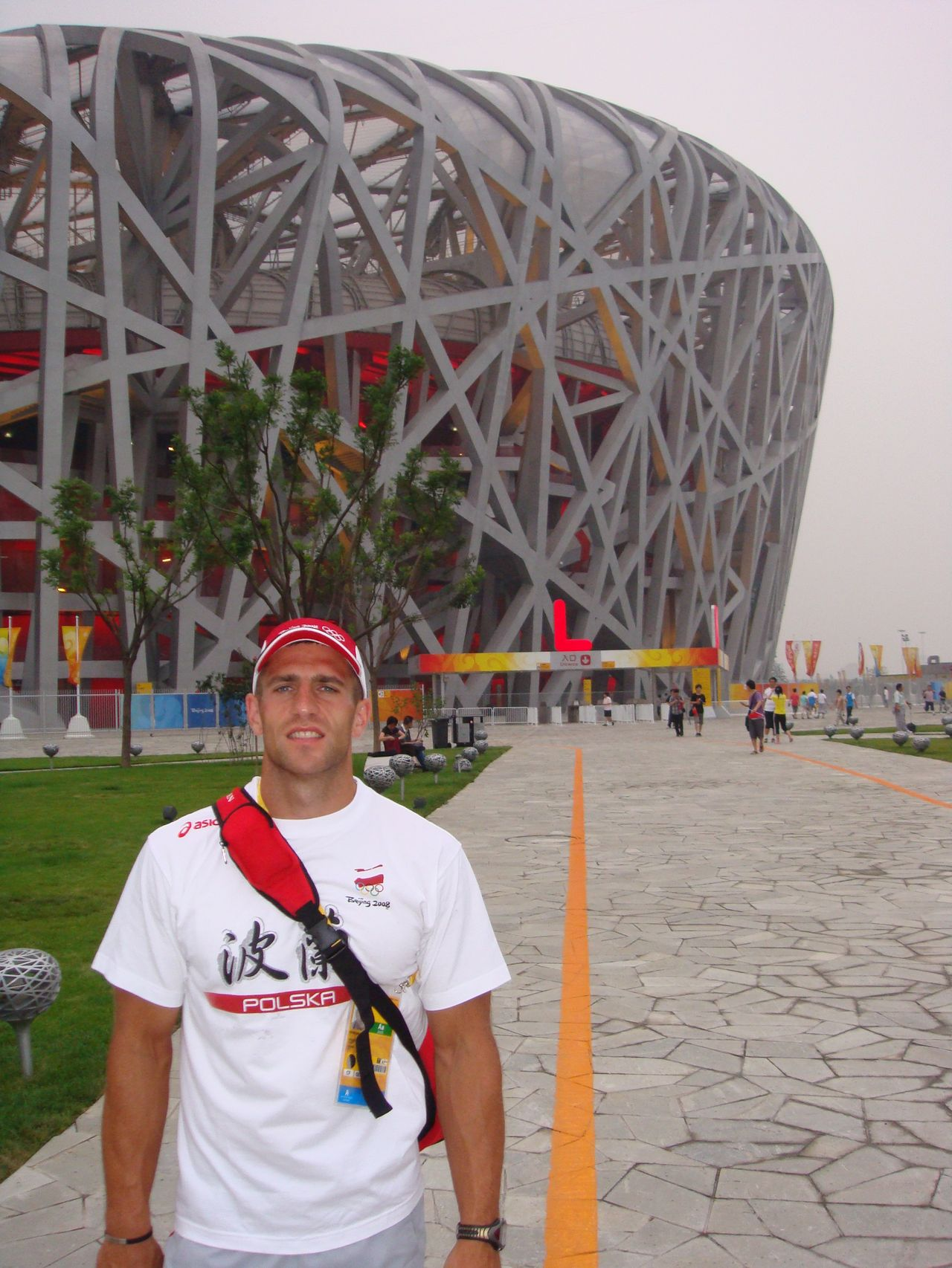 Picture of Beijing